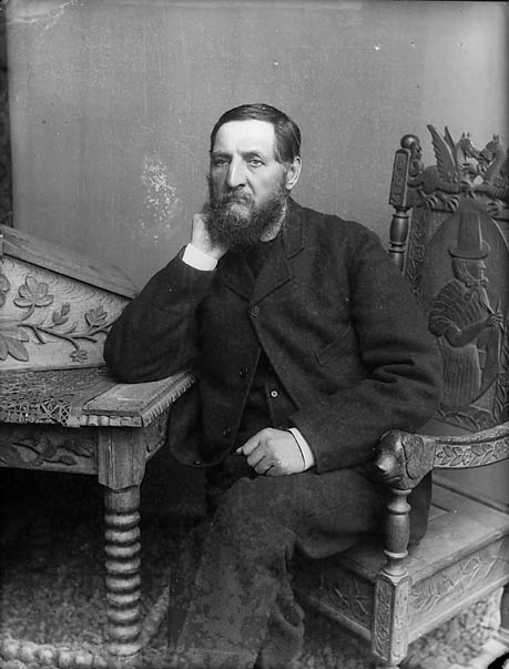 1 negative : glass, dry plate, b&w ; 21.5 x 16.5 cm.